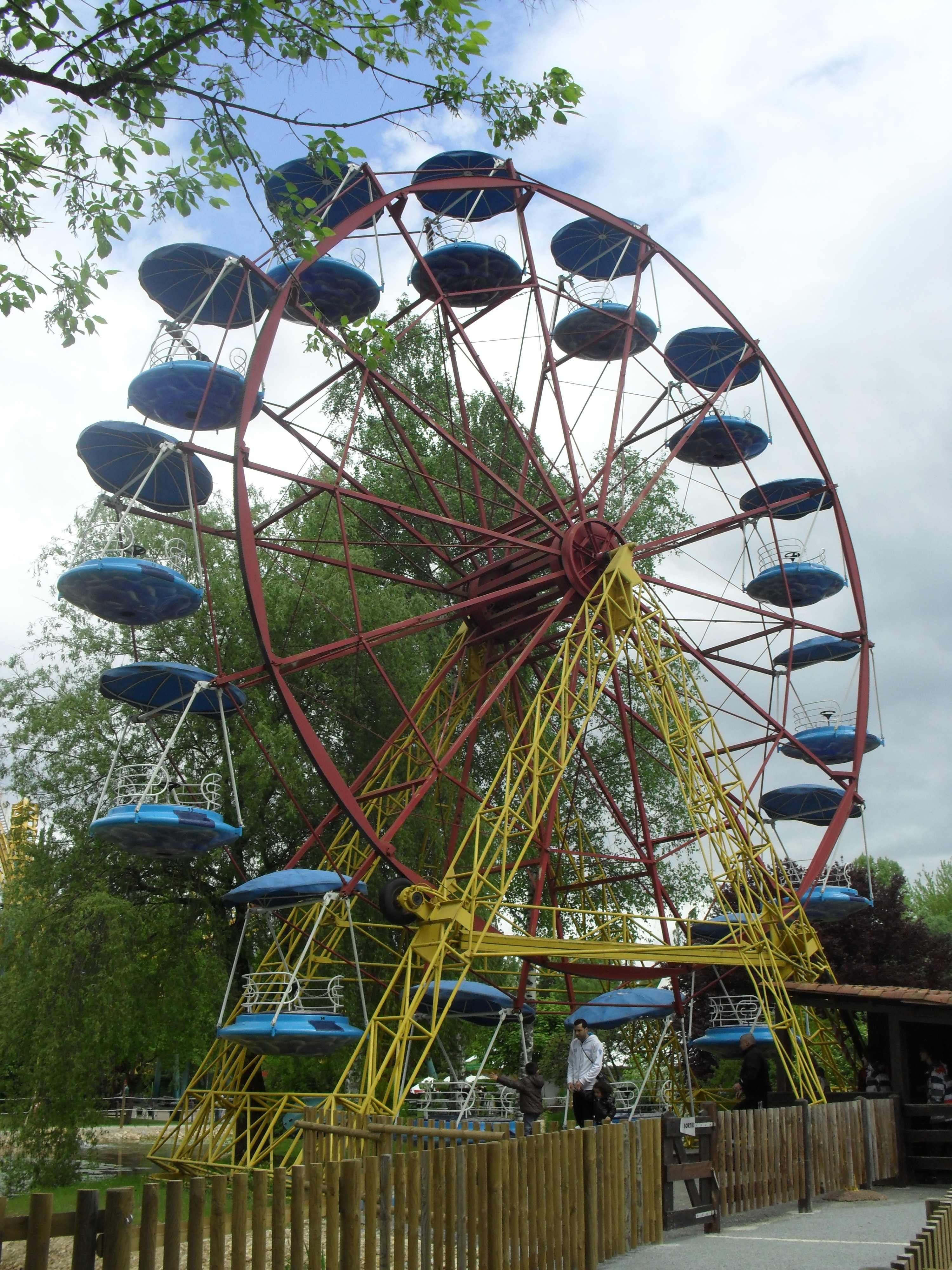 Walibi Rhône-Alpes Ferris wheel